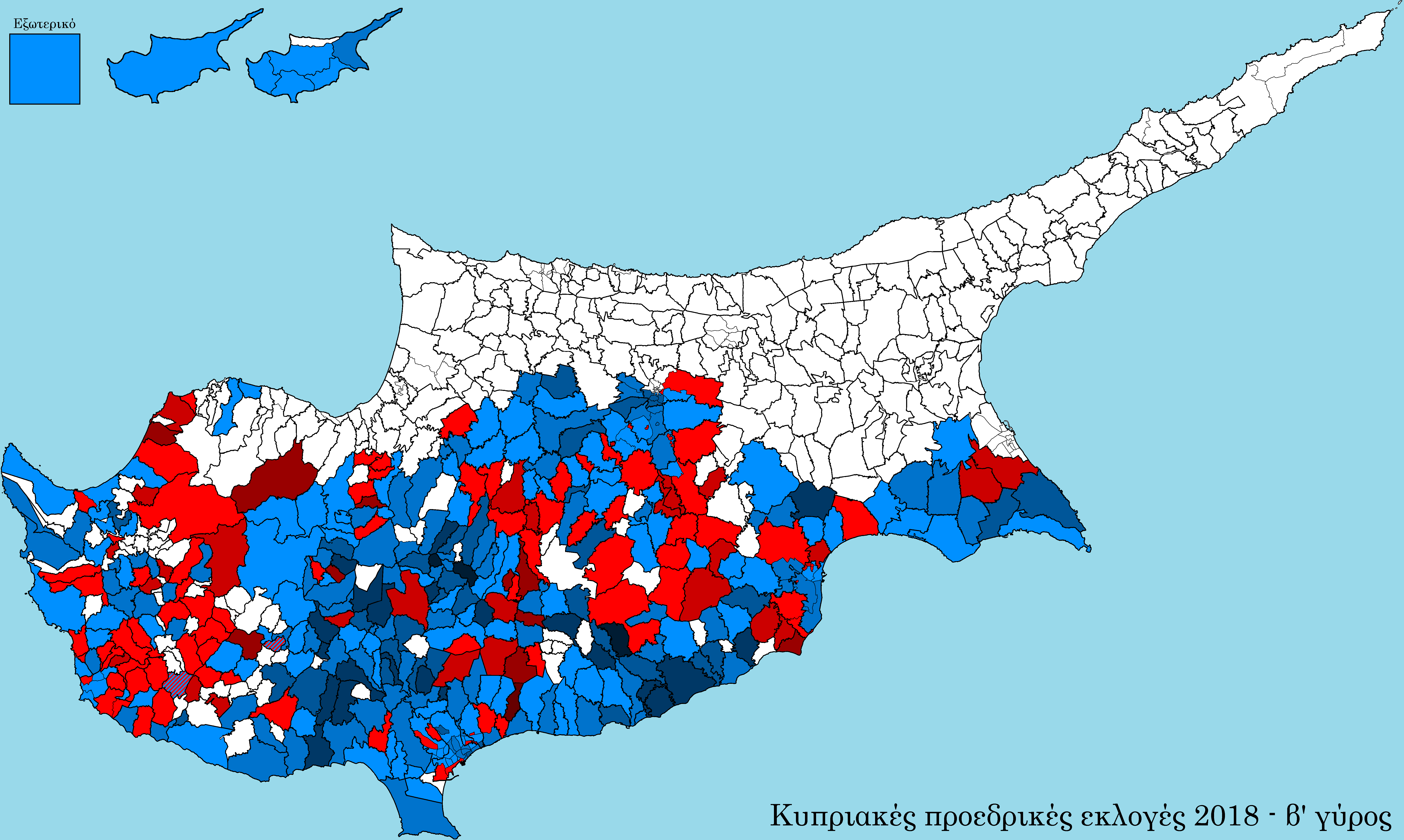 A map of the second round of the 2018 Cypriot presidential election